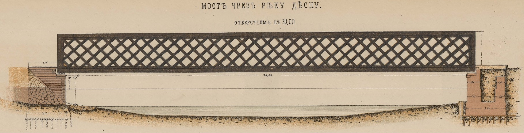 Bridge over the Desna River. Oryol-Vitebsk railway. Russian Empire